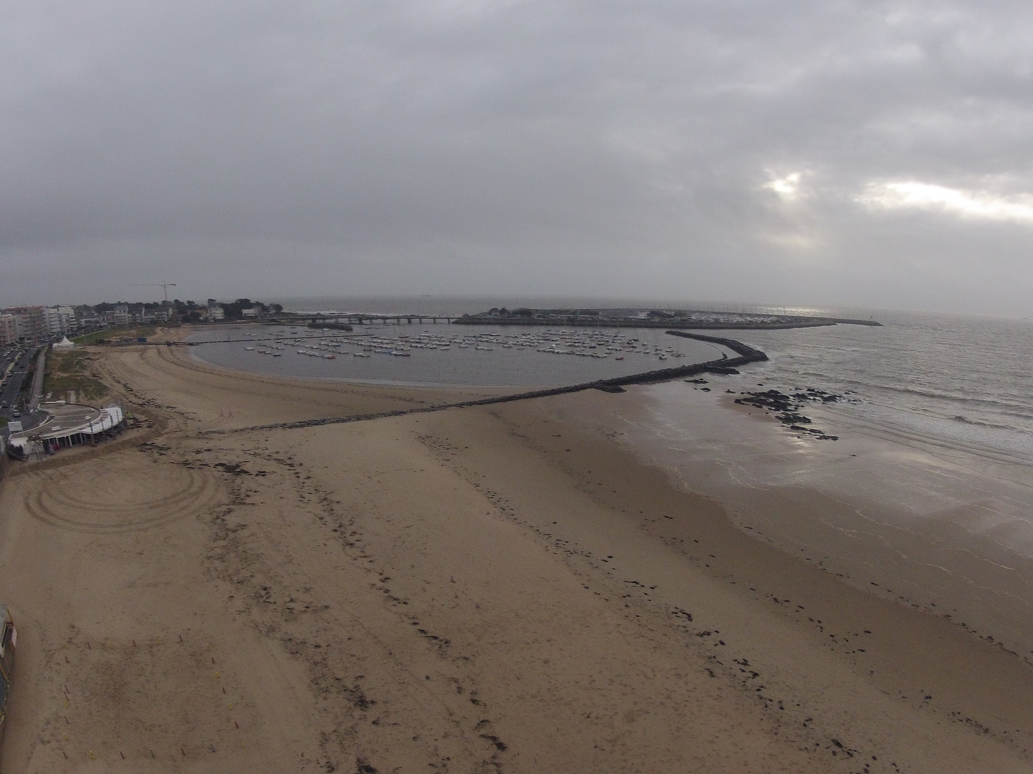 Marina and harbour of Pornichet